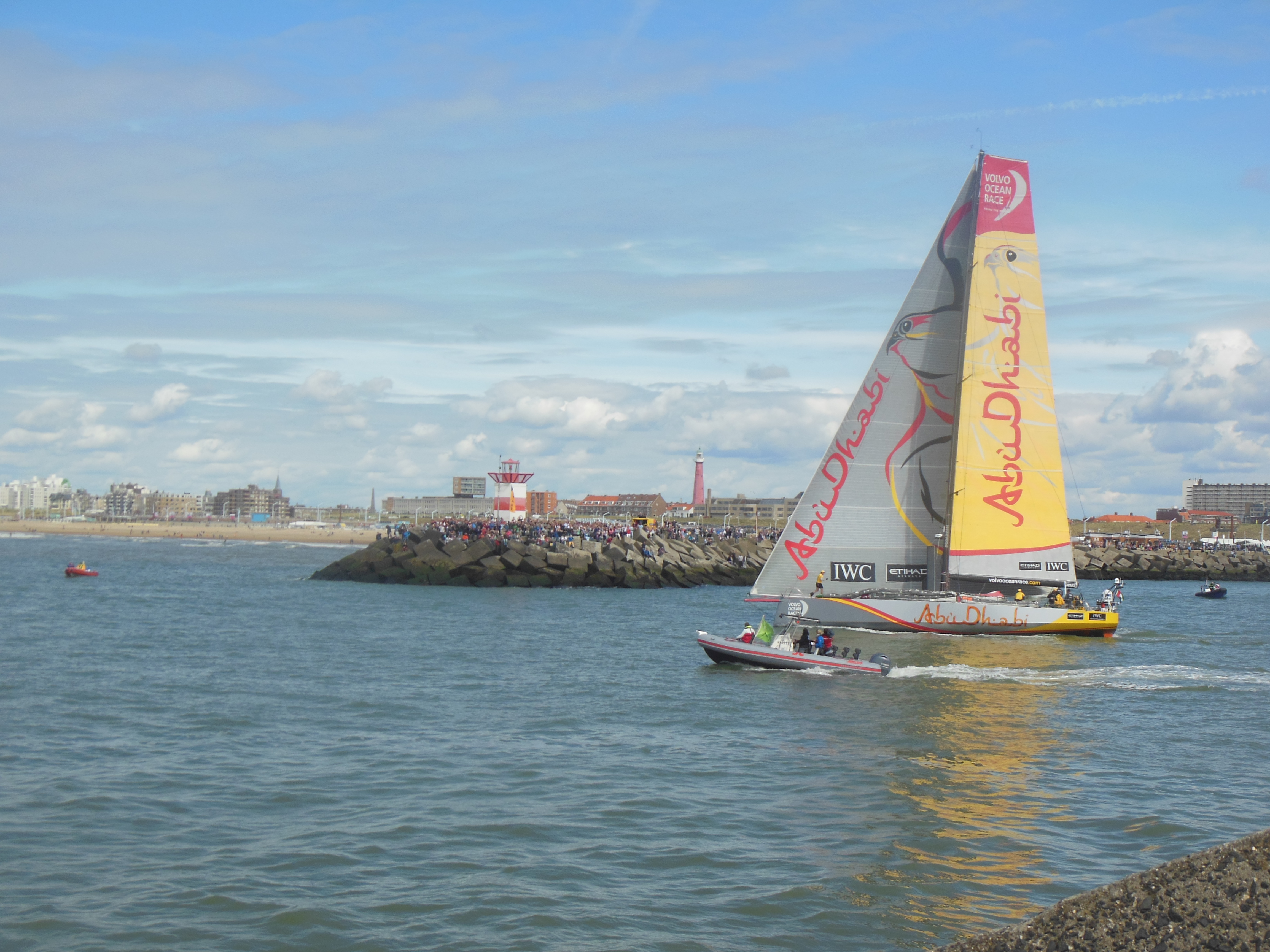 VO65 Abu Dhabi Ocean Racing at the re-start after the pitstop in Scheveningen, Volvo Ocean Race 2014-15